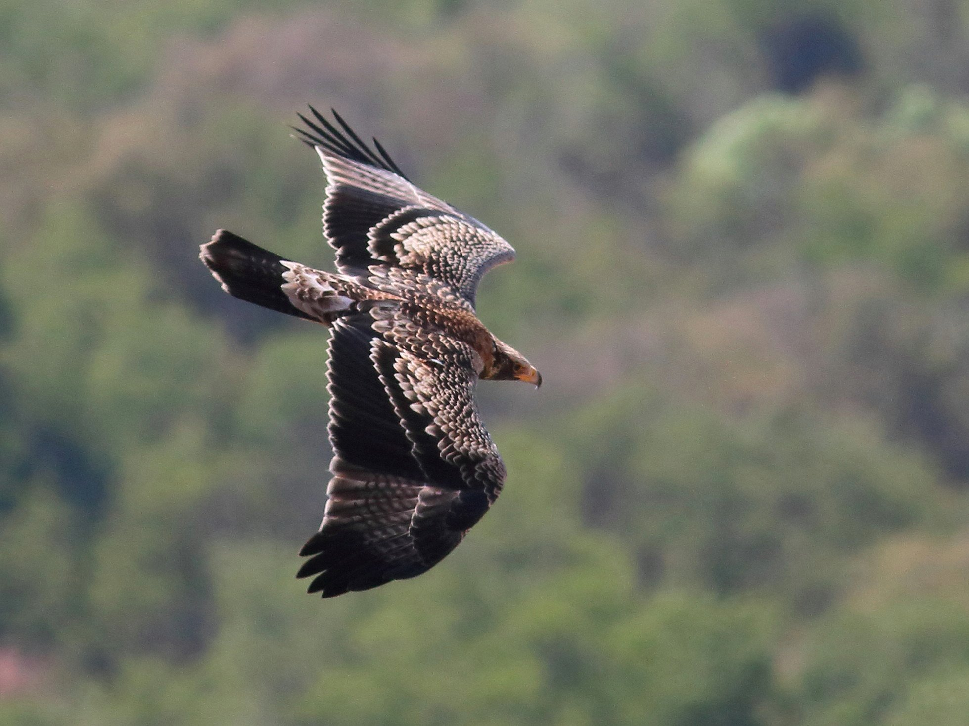 Juvenile Verreaux's Eagle - Nooitgedacht nr Hekpoort, Magaliesberg, South Africa